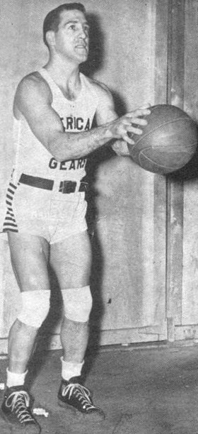 Professional basketball player Bobby McDermott